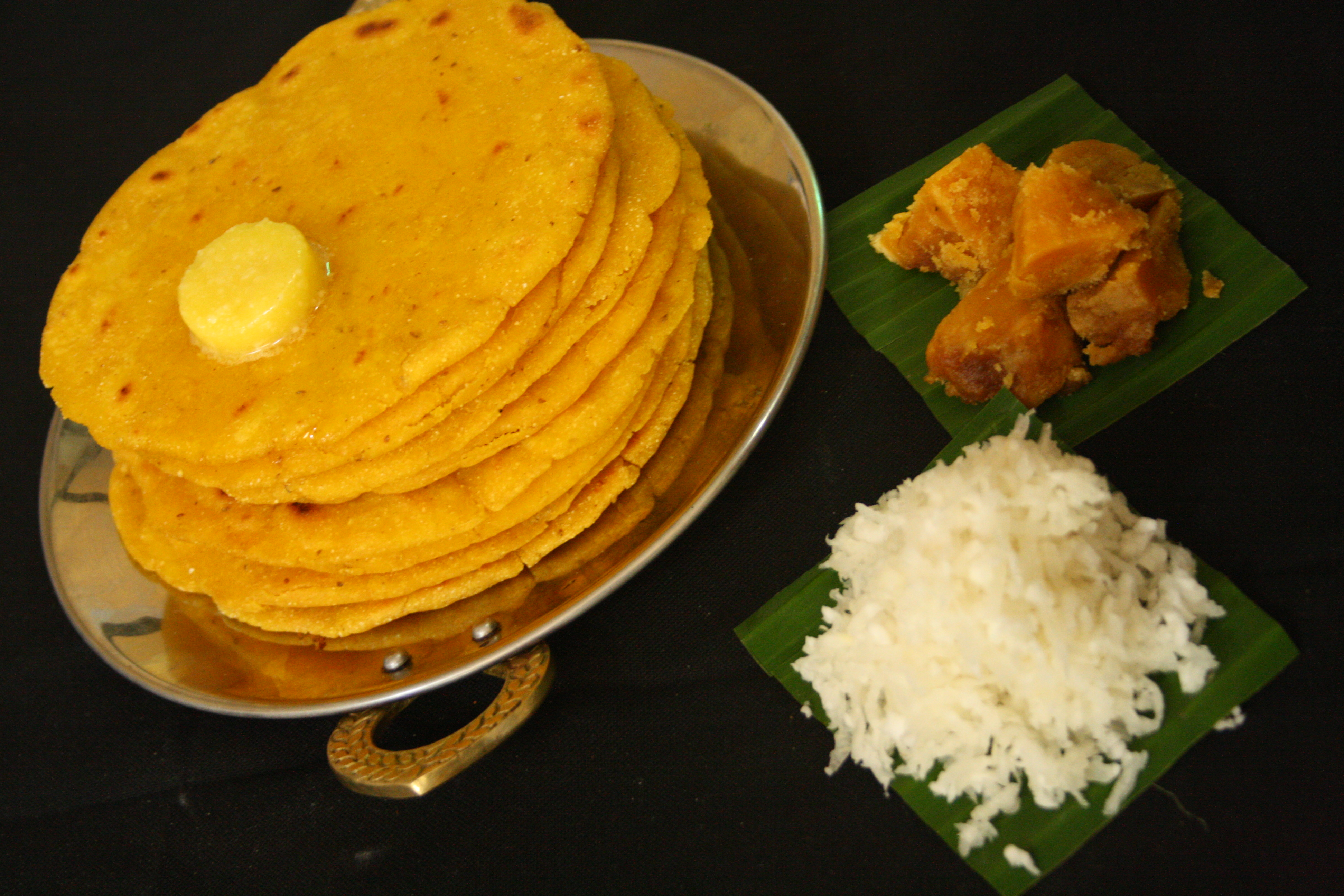 (Makki di roti is a Punjabi corn meal bread which is typically eaten with Sarson ka Saag in Chitpreet’s home.) Yield: 8 rotis Makki ka atta (Corn meal flour) 400 grams Water 200 millilitres Ajwain 5 grams Oil 15 millilitres Salt 5 grams Ghee 40 millilitres Method: • Form a stiff dough using all the ingredients. • Divide dough into 8 parts. • Roll out into circles. • Cook rotis on a hot tawa with ghee or oil. Made by a student of the department of culinary arts, WGSHA, Manipal University